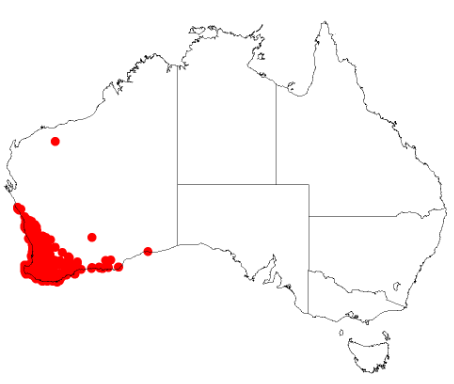 Acacia pulchella Occurrence data from Australasia Virtual Herbarium downloaded from on 8 December 2018